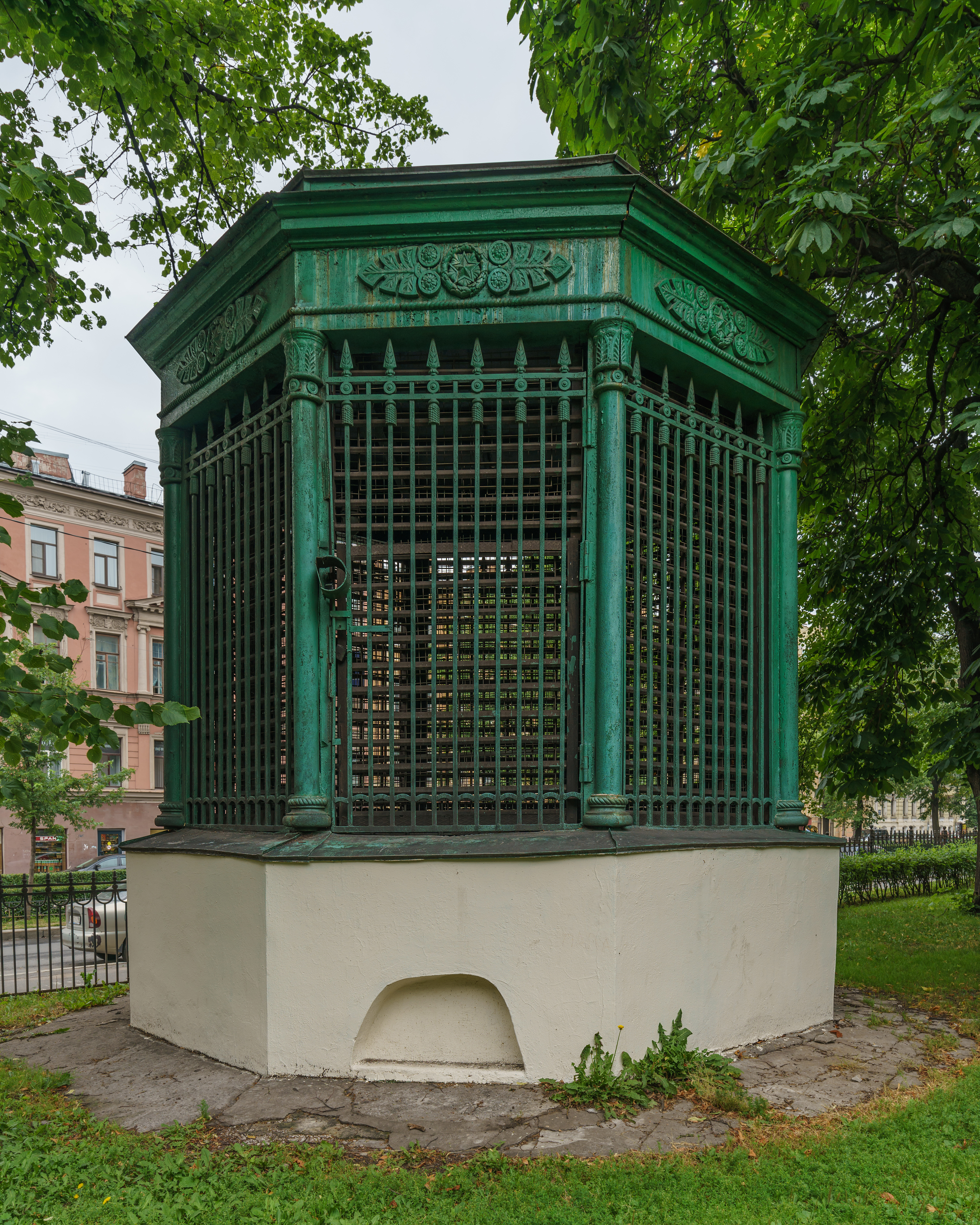 Metro ventilation shaft at Moskovsky Prospekt in Saint Petersburg, Russia.